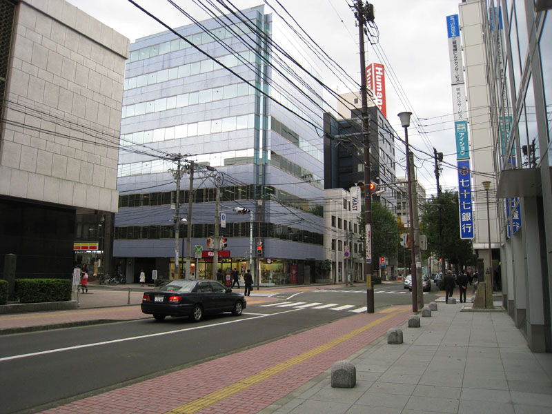 Basho no Tsuji (Basho Intersection) in Sendai City, Japan, in 2010